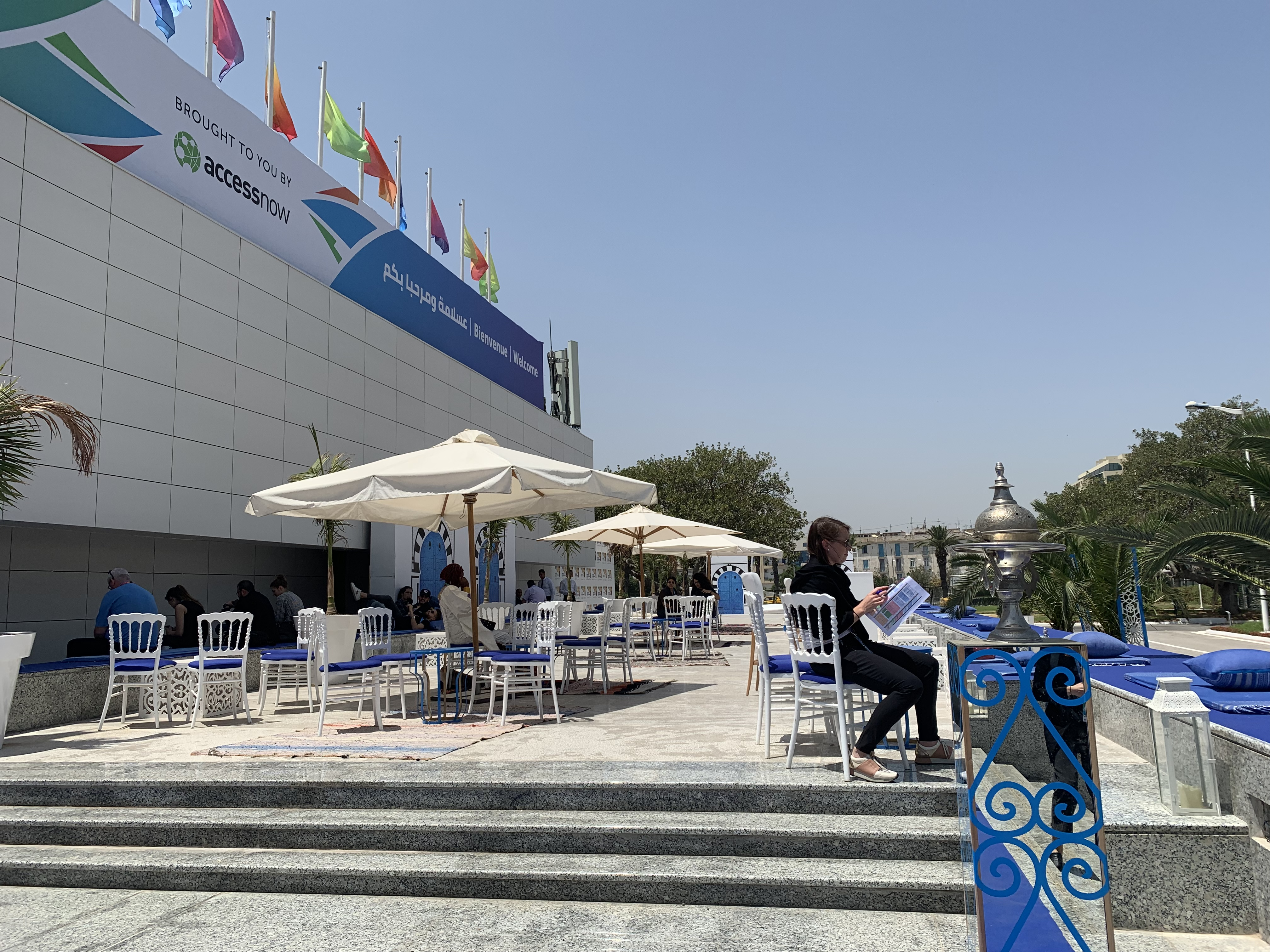 Entrance of Palais des congrès, one of the venues hosting RightsCon 2019 in Tunis.